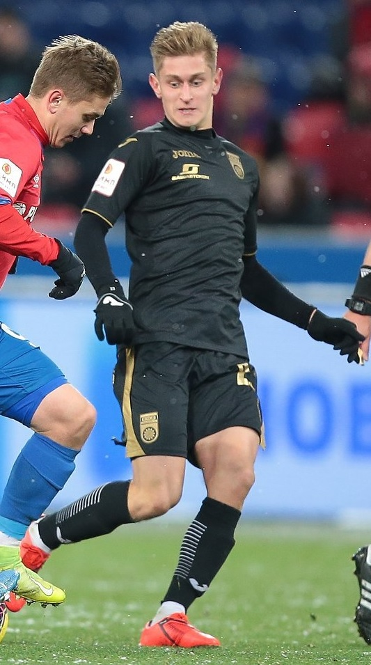 Danila Yemelyanov with FC Ufa in a Russian Cup game againt PFC CSKA Moscow.